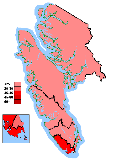 Map made by uploader (User:Earl Andrew); see [1] (question about source) and [2] (response).